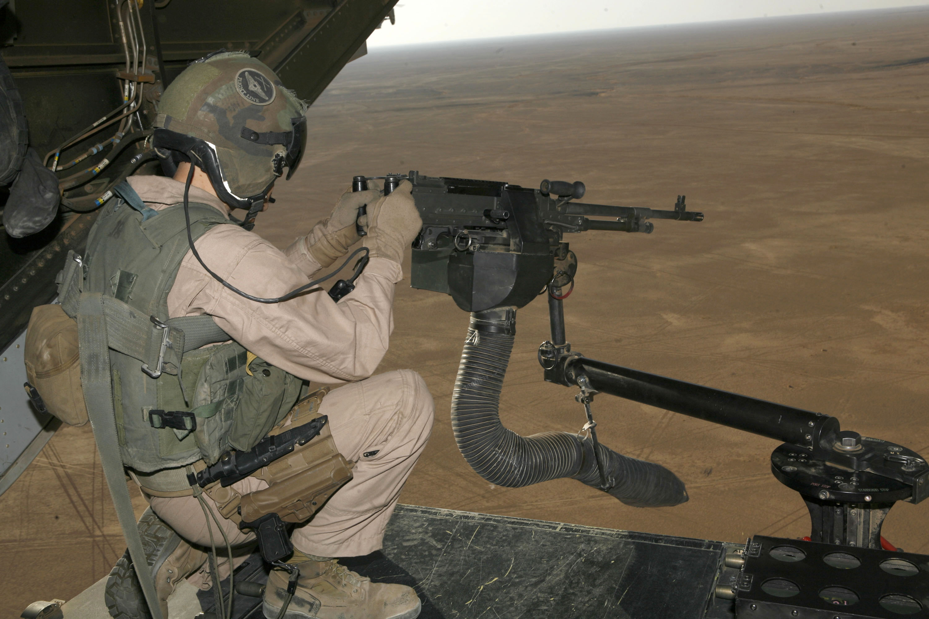 U.S. Marine Sgt. Danny L. Herrman, a flight line crew chief with VMM-263, test fires a M240 medium machine gun on the back of a MV-22B Osprey while flying on a mission over Iraq.